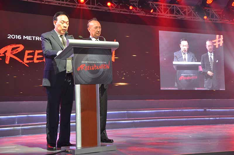 Launching ceremony of the 2016 Metro Manila Film Festival which was held on June 28, 2016.